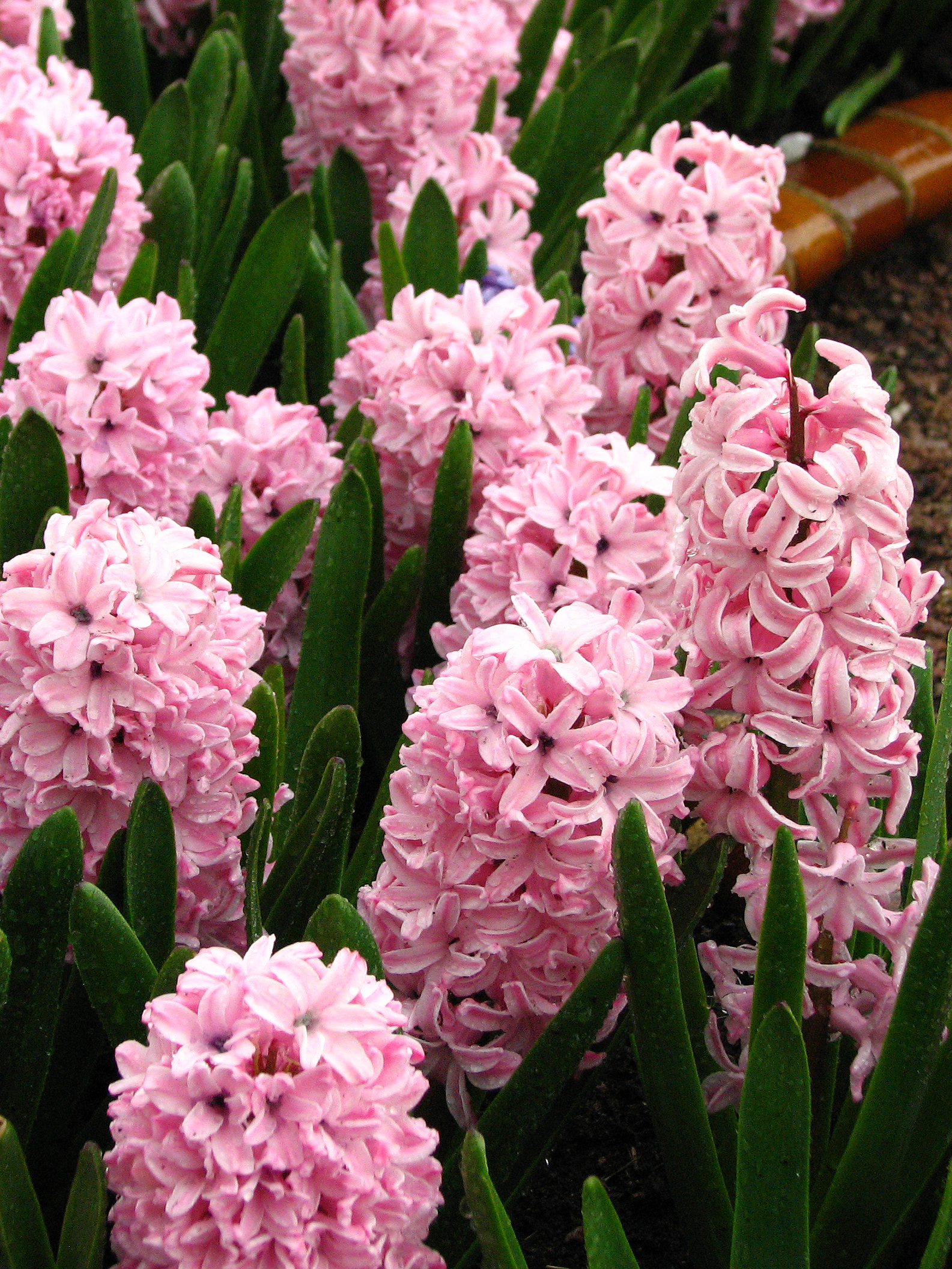 Flower beds in park Kolomenskoye (Moscow). Hyacinthus orientalis ‘Pink Pearl’